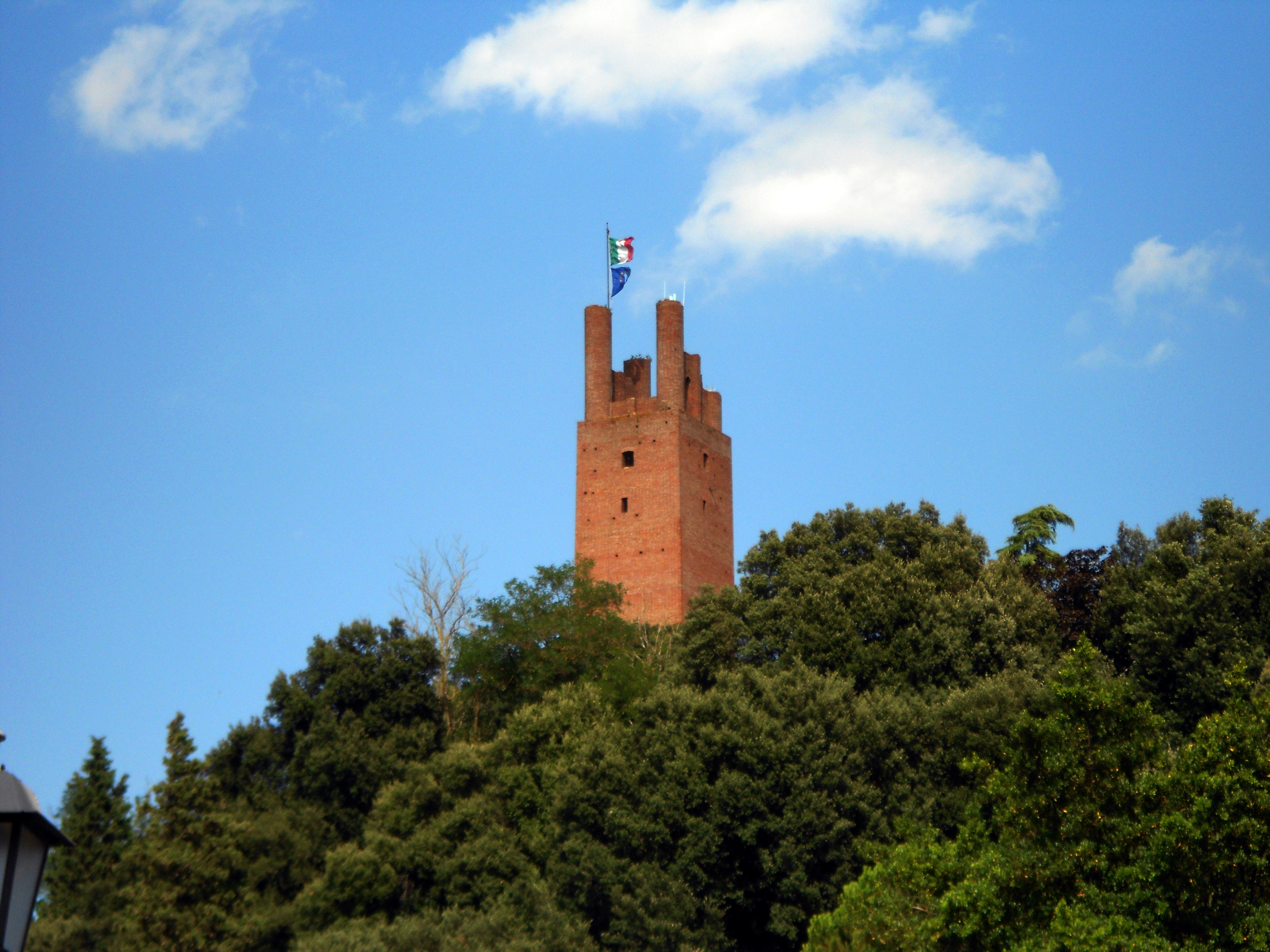 Tower of Frederick II ("Rocca di Federico II"), San Miniato, Tuscany, Italy